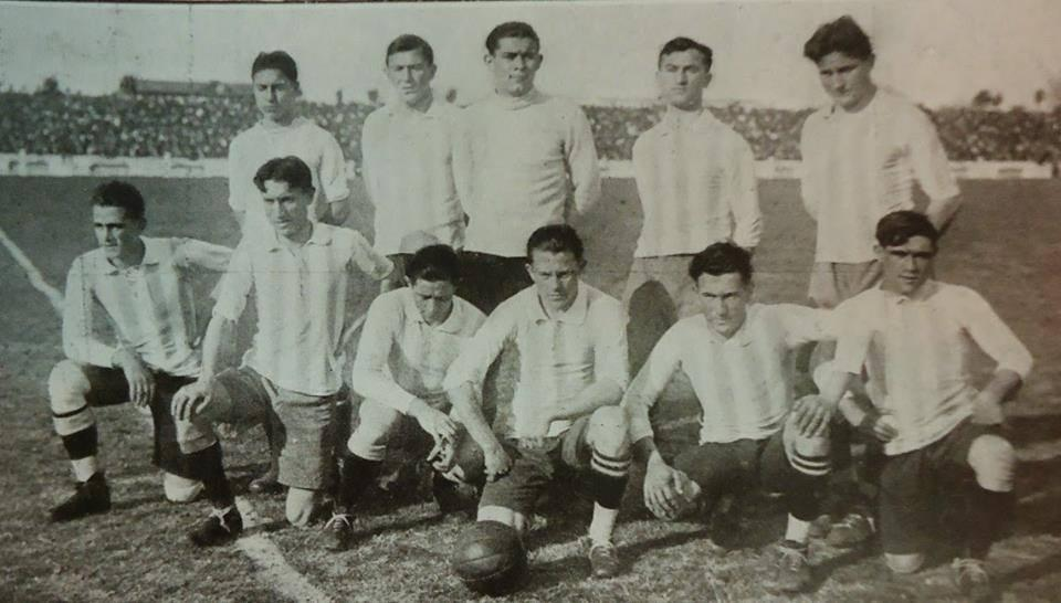 Selección Argentina 1920